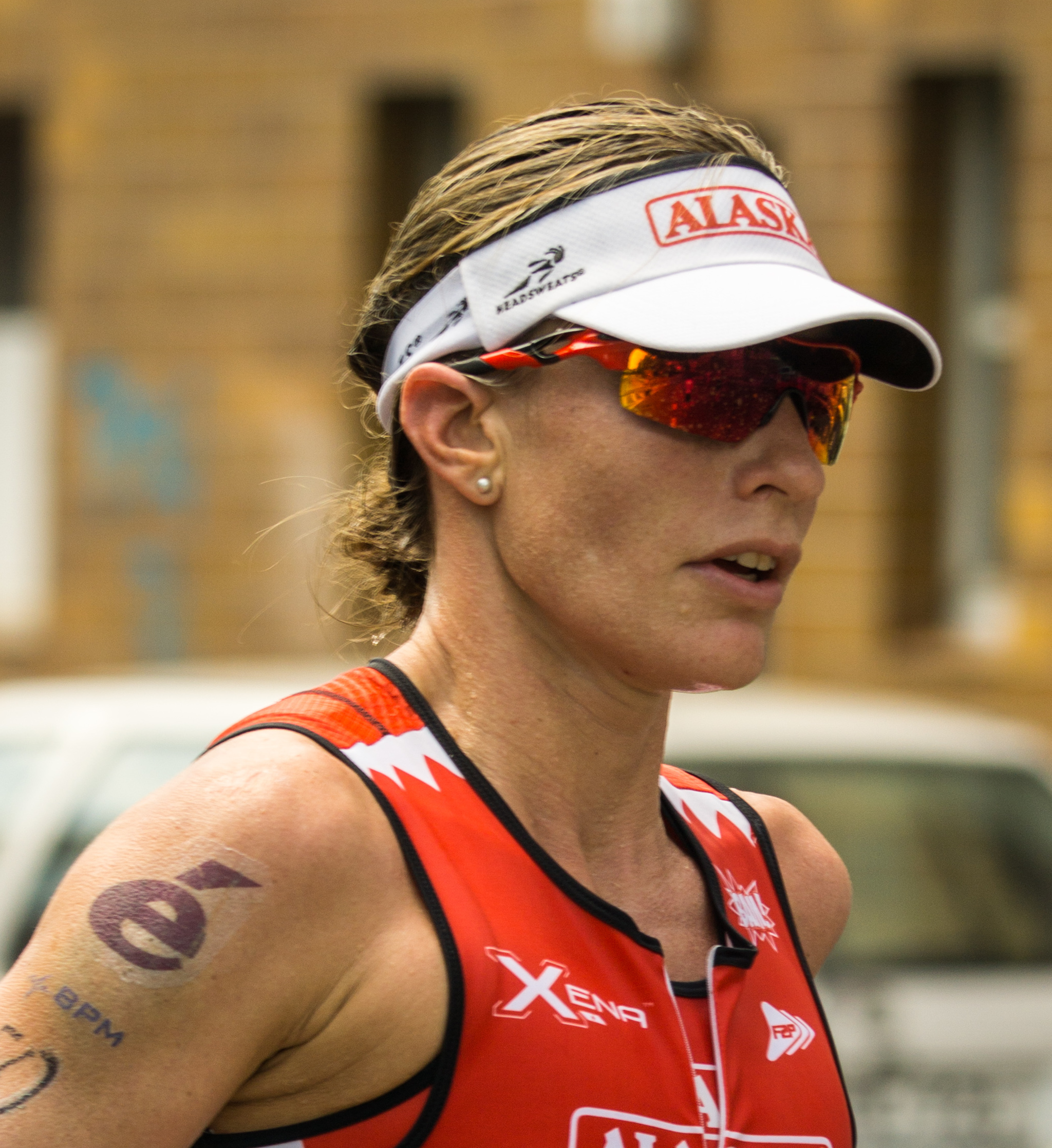 Caroline Steffen at the 2015 Ironman European Championship in Frankfurt am Main.